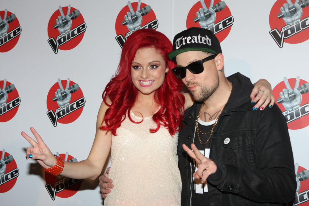 Sarah De Bono and Joel Madden at The Voice (Australia) media conference in Hordern Pavilion, Moore Park.